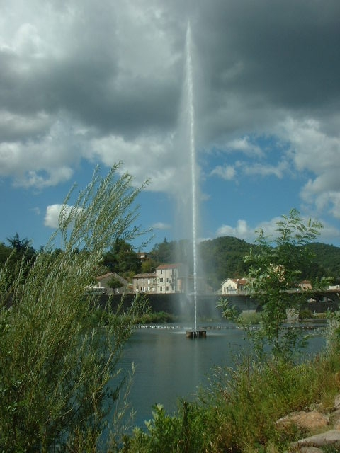 in Alès there is a large fountain the river that fires off every few minutes